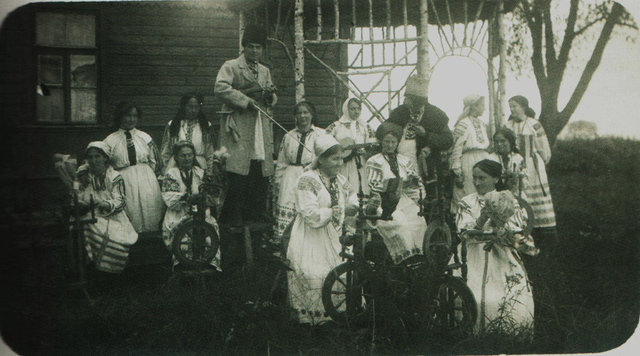 Kobryn_1917